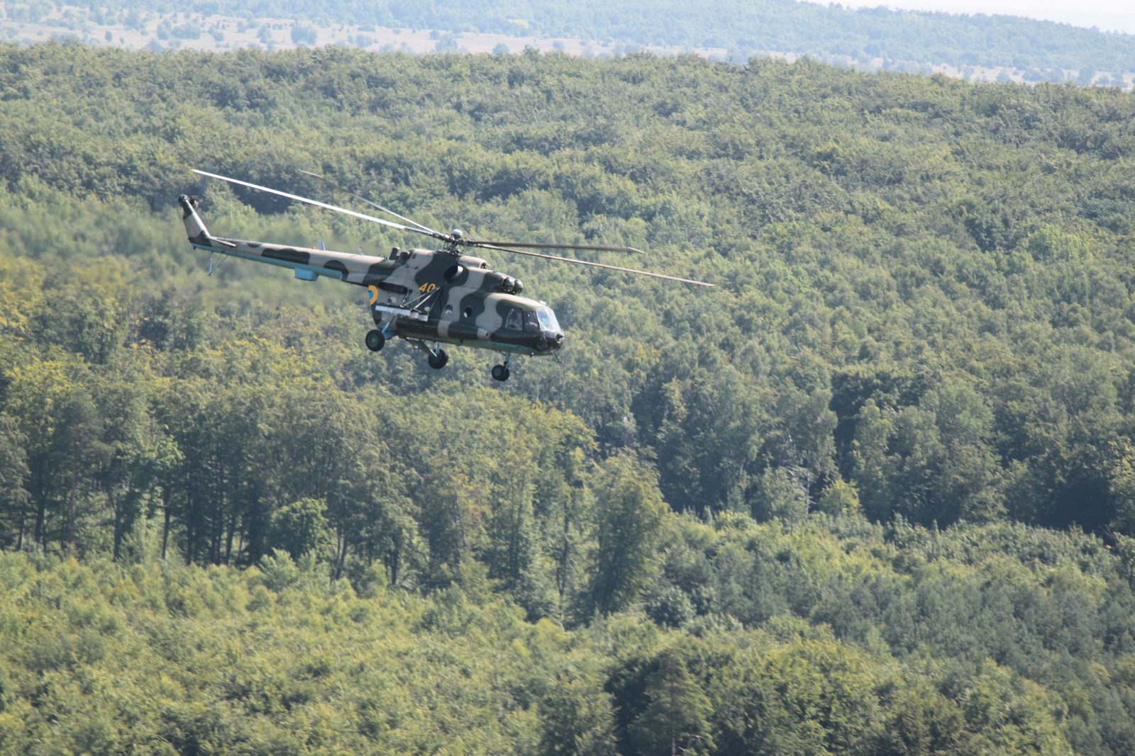 A Ukrainian Mi-8 helicopter transports paratroopers who are preparing to jump over the International Peacekeeping and Security Center in Yavoriv, Ukraine, July 9, 2013, as part of Rapid Trident 2013. Rapid Trident is an annual joint combined exercise involving the U.S. and Partnership for Peace member nations. Missions alternate in odd and even years. In odd years Rapid Trident is a field exercise, while in even years the exercise incorporates a command post exercise.